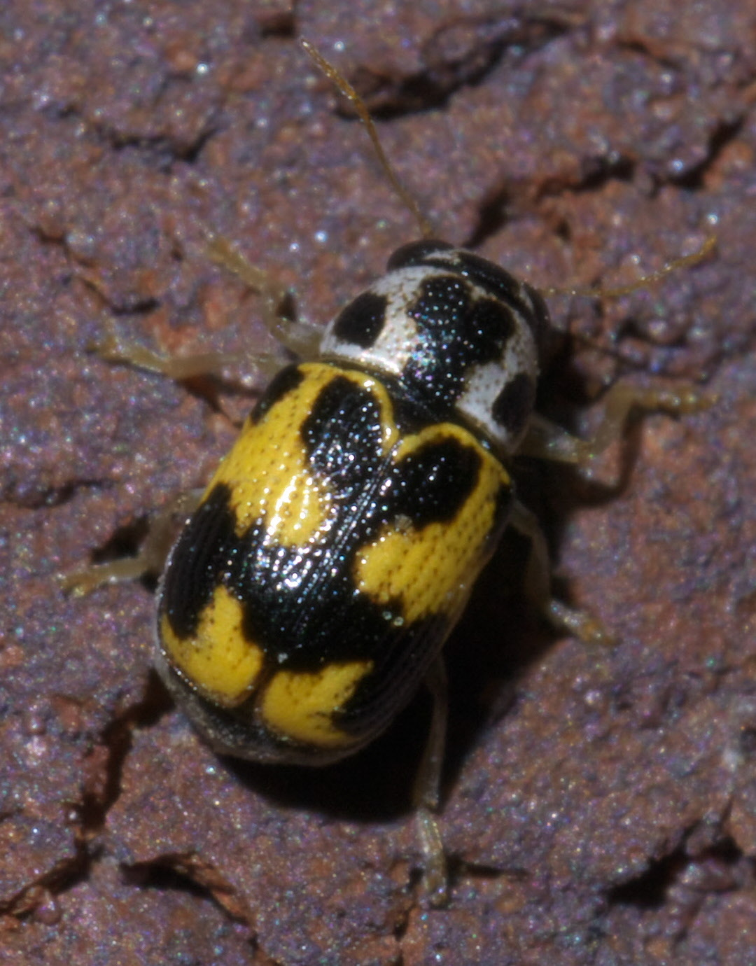 Pachybrachis tridens, Genus: Scriptured Leaf Beetles, Size: 3 mm, ID Confidence: 90